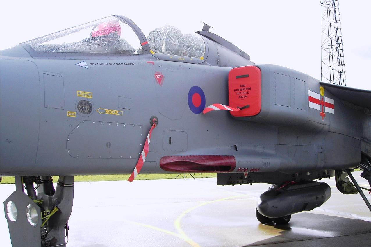 The Jaguar of outgoing OC 41 Sqn, Wg Cdr R. M. J. 'Dick' MacCormac, RAF Coltishall, 1 April 2006.